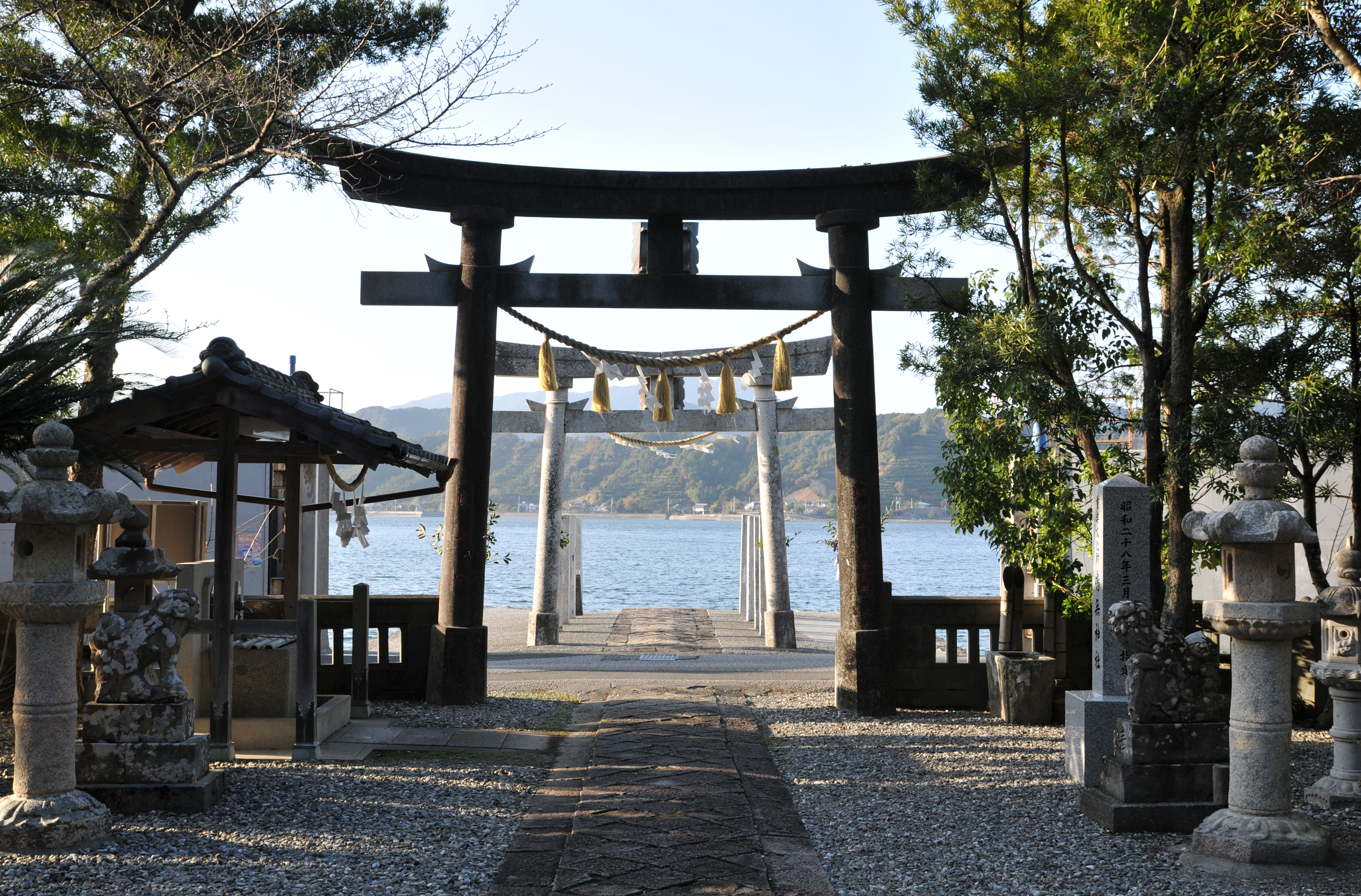 Second torii and first torii, Otonashi-jinja